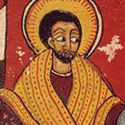 Iyesus Kristos (Jesus Christ) according to the traditional iconography of the Ethiopian Church (17th-18th c. Ethiopia). Image from Black History by John R. Moore, retrieved 25 September 2006.